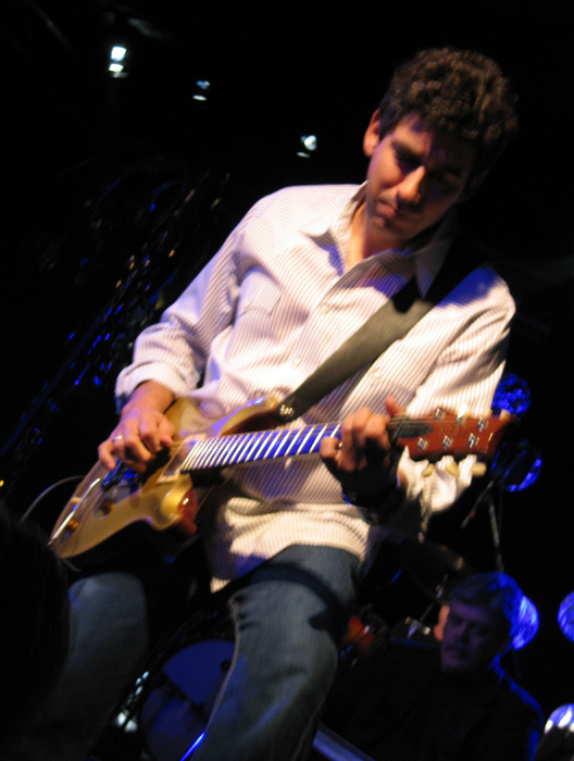 David Grissom, guitarist and road manager for the Dixie Chicks while on tour performing with them; December 31, 2005 Photo: Andrew Minnick